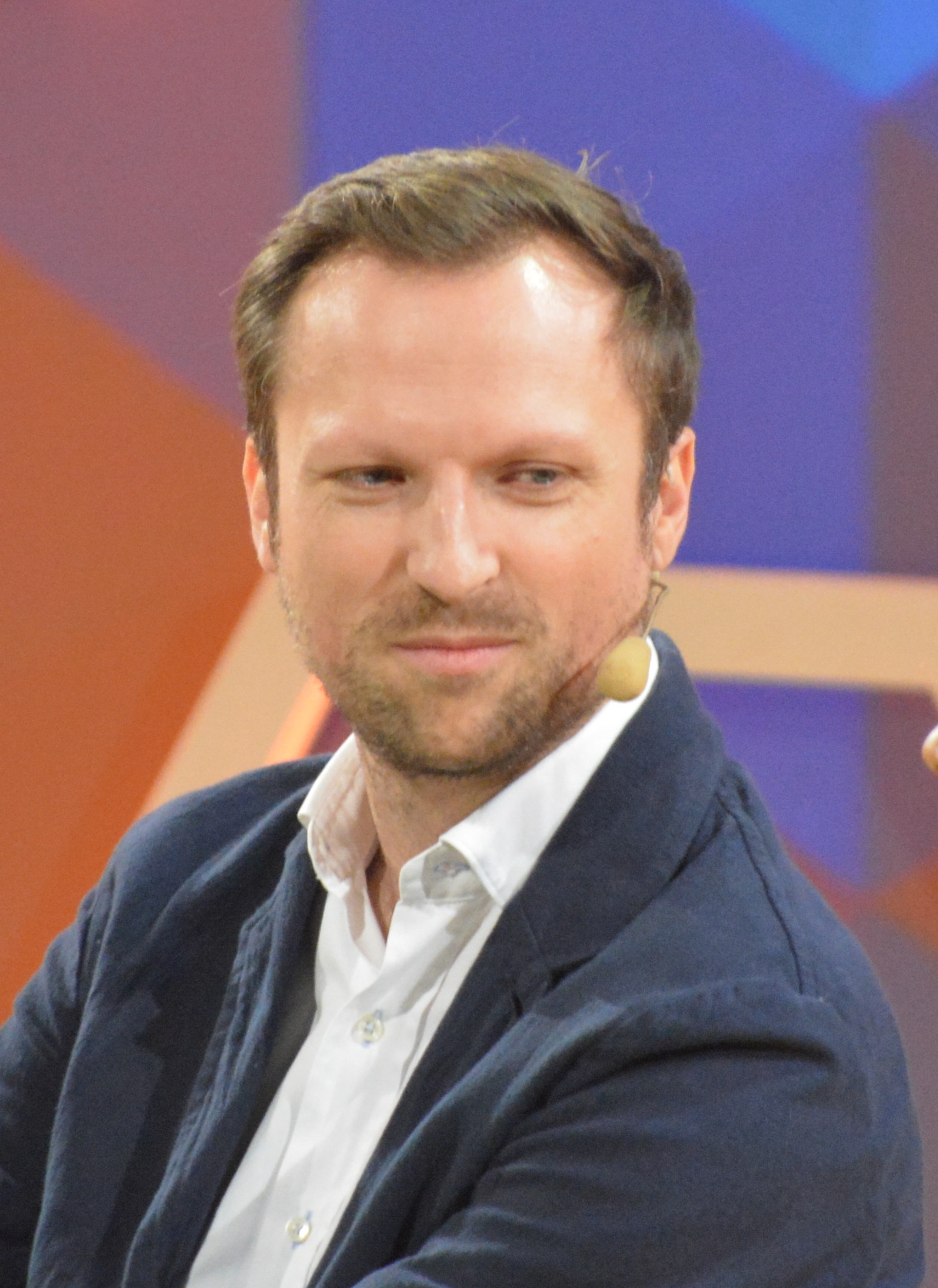 Orlando von Einsiedel at Nobel Week Dialogue in Göteborg 2017